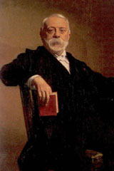 Portrait of Alexandre Jamar (1821-1888)